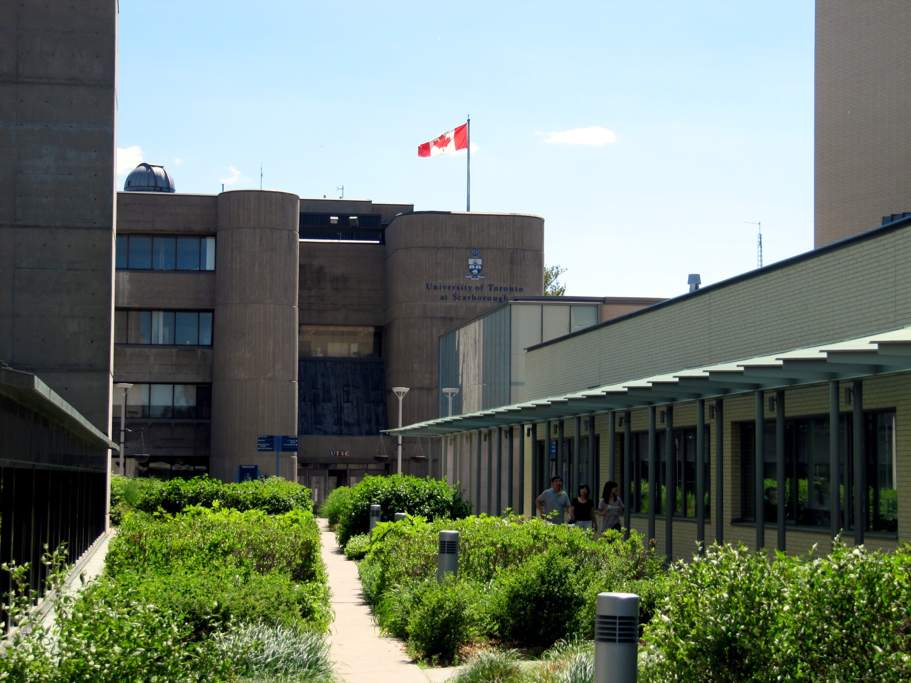 I guess this is kind of the main walkway through the middle of the UTSC campus. The building straight ahead is one of the original buildings from when the campus opened in 1966. On the right is the much newer Arts and Administration building. I visited U of T Scarborugh campus for Doors Open 2010